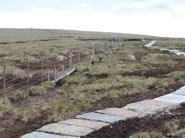 The summit of The Cheviot, a hill in Northumberland, England.